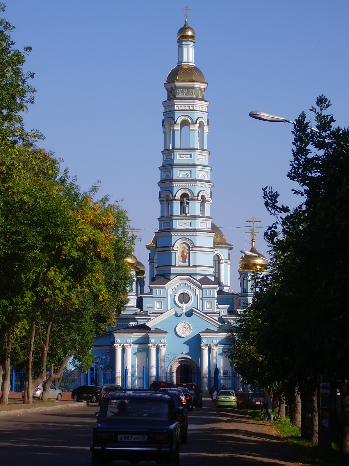 Orthodox church at the end of Kirov street. Later I went inside the church where a small service took place. There was a 6-person-choir, 4 female, 2 male voices. A beauty. I sat down for half an hour and listened.